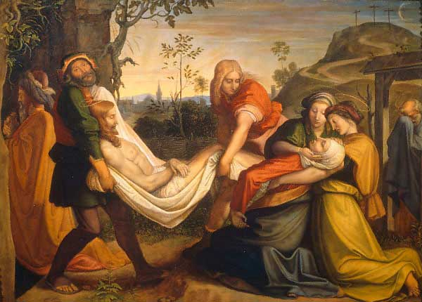 Entombment of Christ